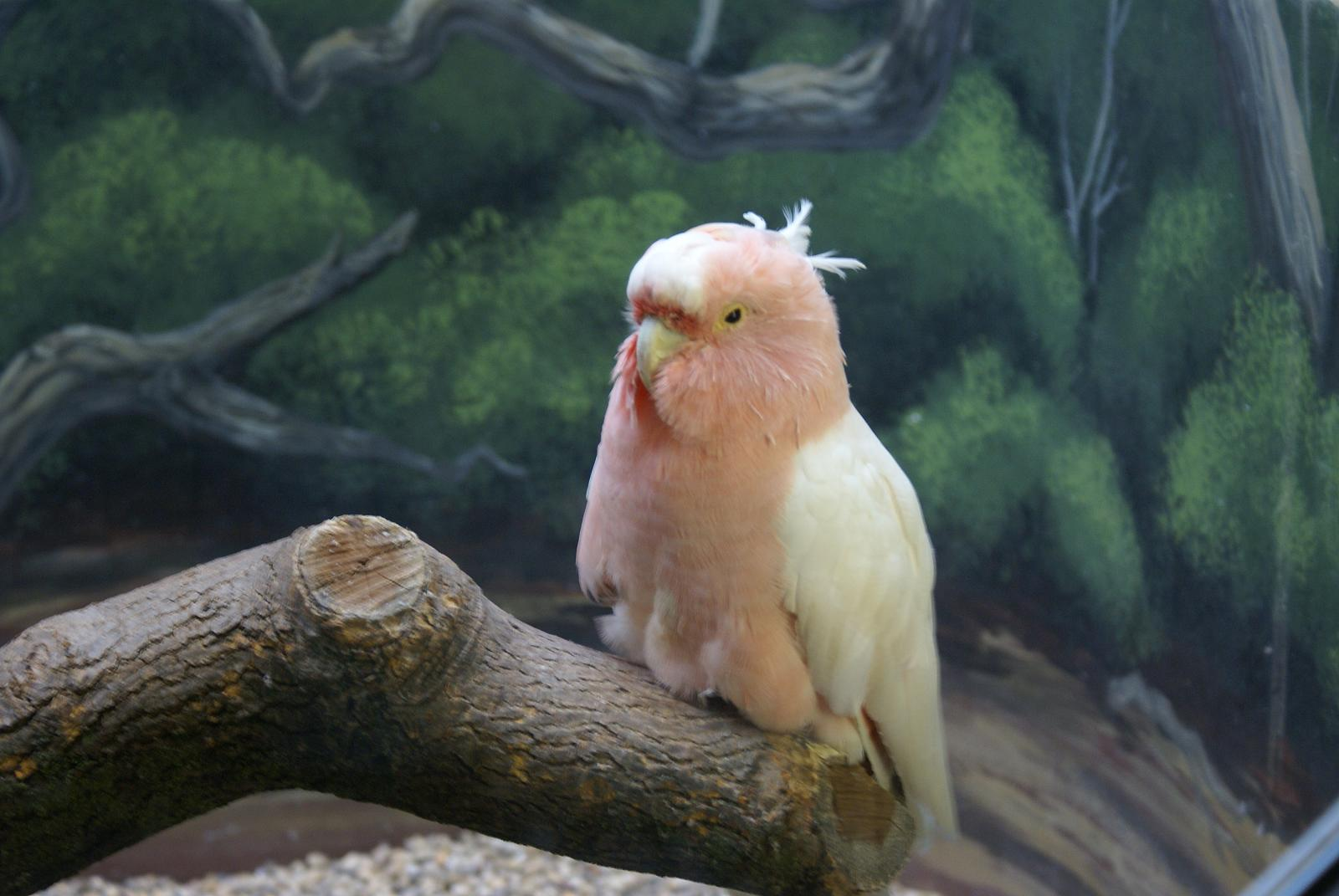 Major Mitchell's Cockatoo also known as Leadbeater's Cockatoo or Pink Cockatoo in Brookfield Zoo, USA, pictured in 2008. This bird is named Cookie and as of 2014 is 80 years old. He is the oldest Major Mitchell's Cockatoo alive in captivity.